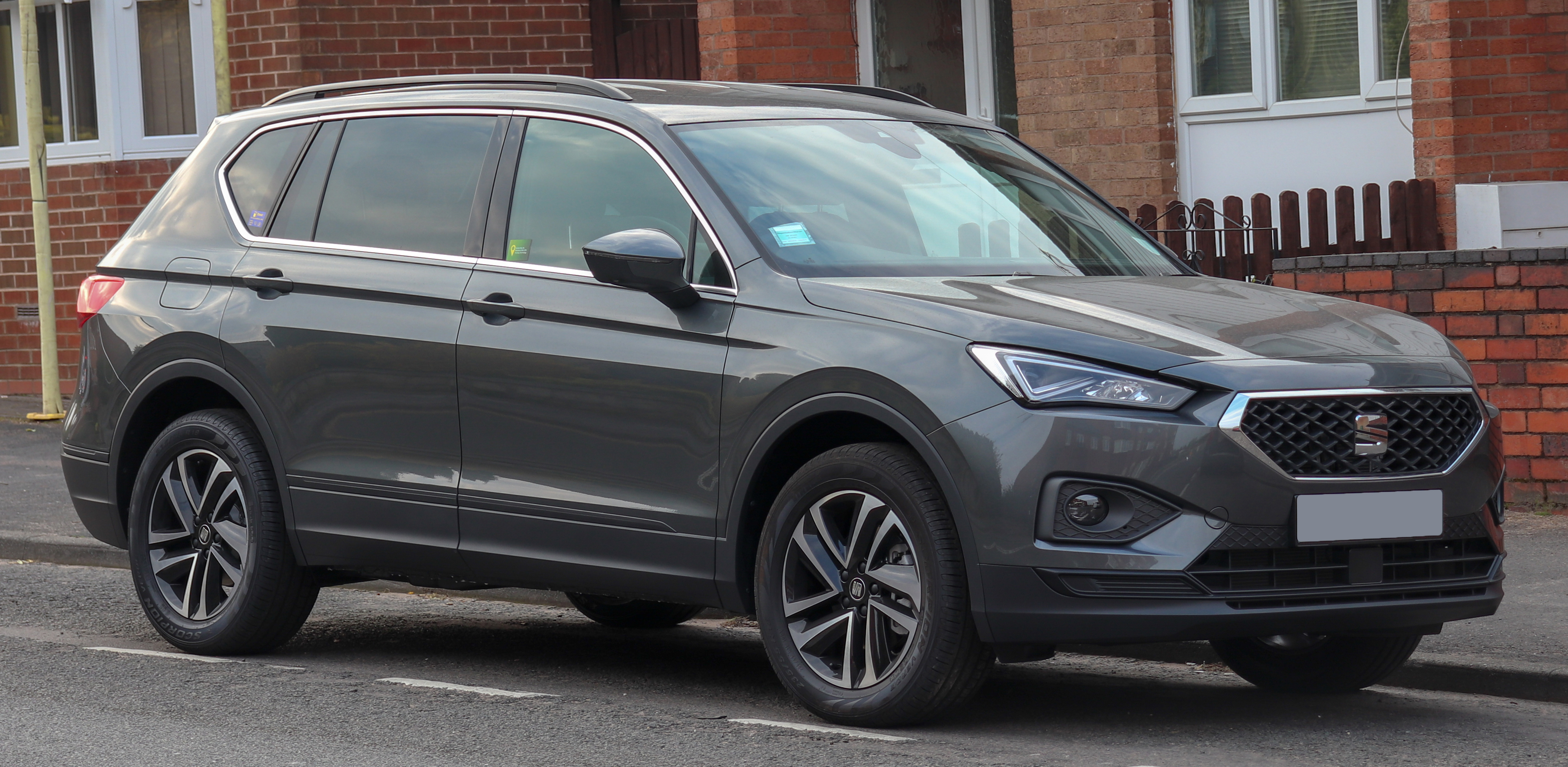 2019 SEAT Tarraco SE Tech TDi 4Drive SA 2.0 Front Taken in Warwick